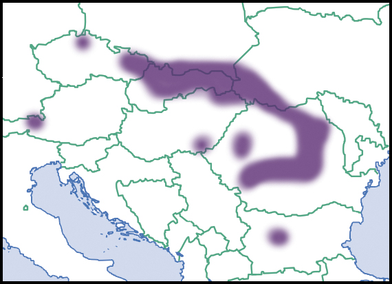 Vitrea transsylvanica (Clessin, 1877). Distribution in Europe, scientific state of knowledge of 2012. Source description in English. Light colour indicated rare occurrences or regions where the species could eventually be expected to occur. Dark colour indicated relatively reliable occurrences, as well as regions where the species was expected to occur, and where the species was not known to be extremely rare. Dark colour indications were not necessarily based on published records. Species summary in AnimalBase